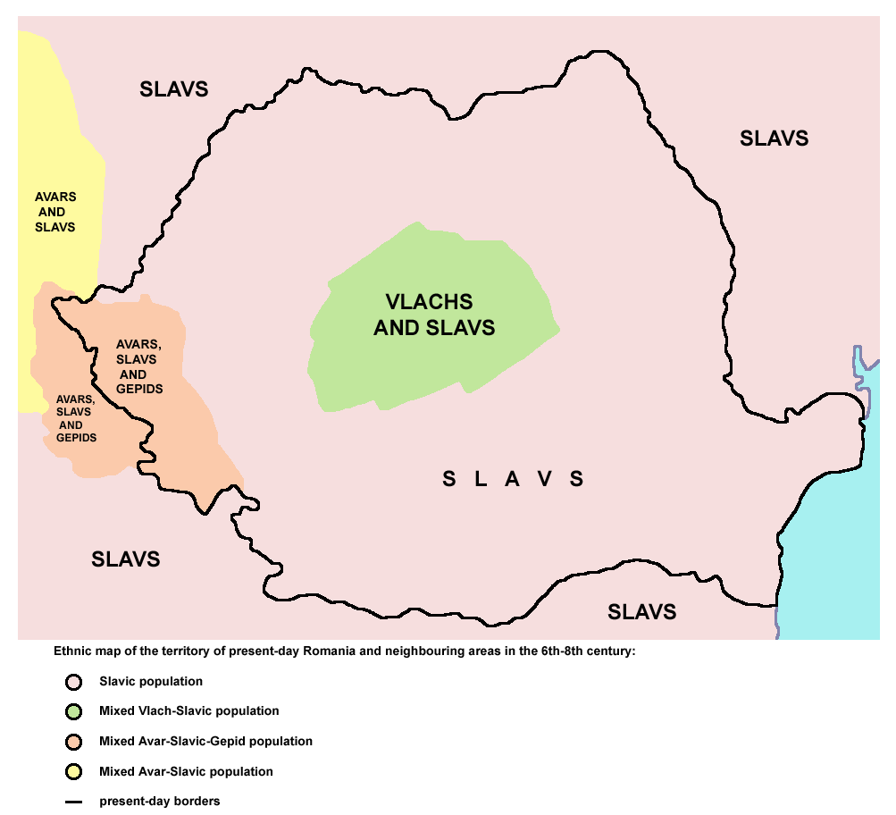 A view on 6th to 8th century AD ethnic distribution in the territory of present-day Romania and neighbouring areas. It is based on the historical atlas for schools, "Školski istorijski atlas, Zavod za izdavanje udžbenika SR Srbije", published in Belgrade in 1970 and representing information from Yugoslav sources at that time. See also References below.